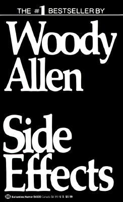 book cover